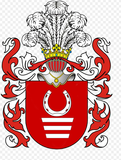 Coat-of-arms of the Kobyzewicz-Krynicki noble family, 27 March 1589.